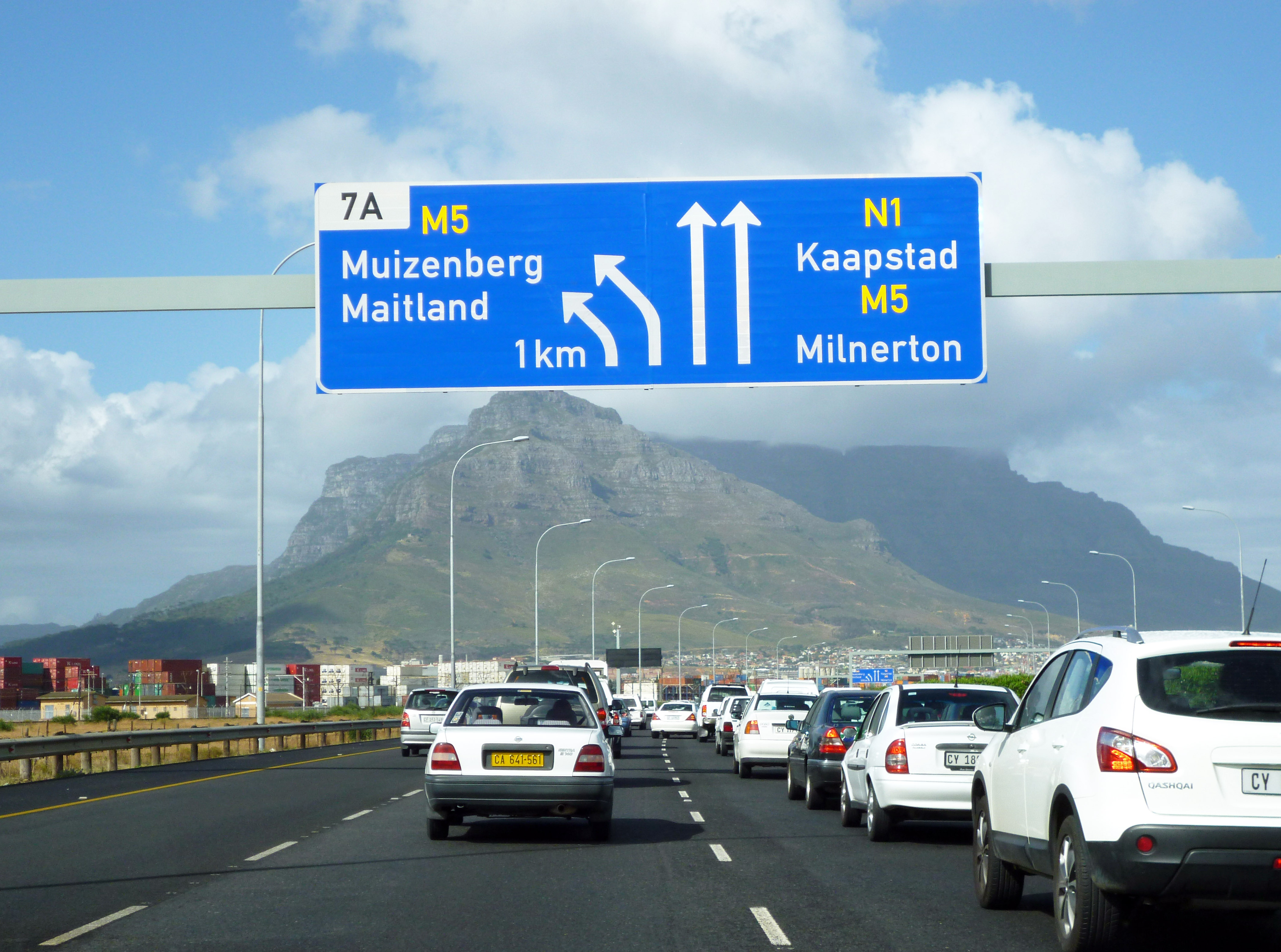 The N1 freeway heading westbound into Cape Town, South Africa. Photographed by user Coolcaesar on November 20, 2011.